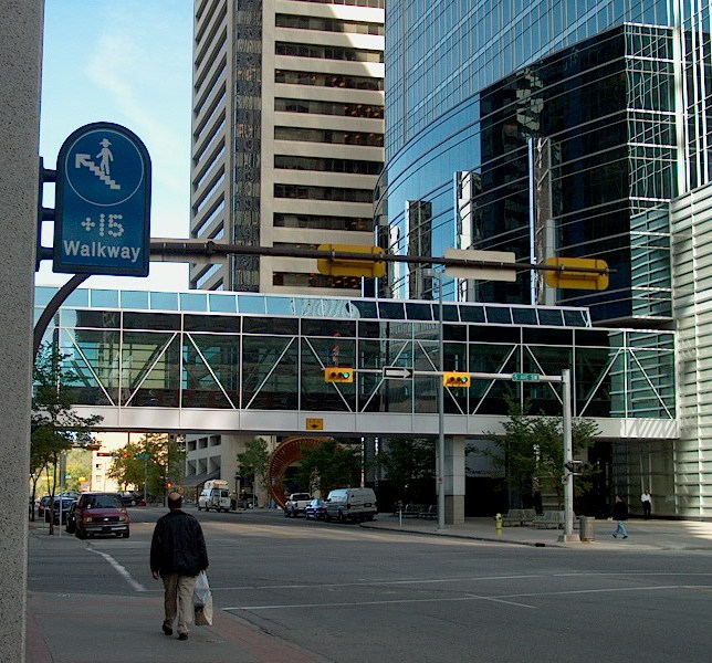 Shows the +15 sign with the guy with the hat as well as a walkway. Photo taken 17SEP05 by DrHaggis.